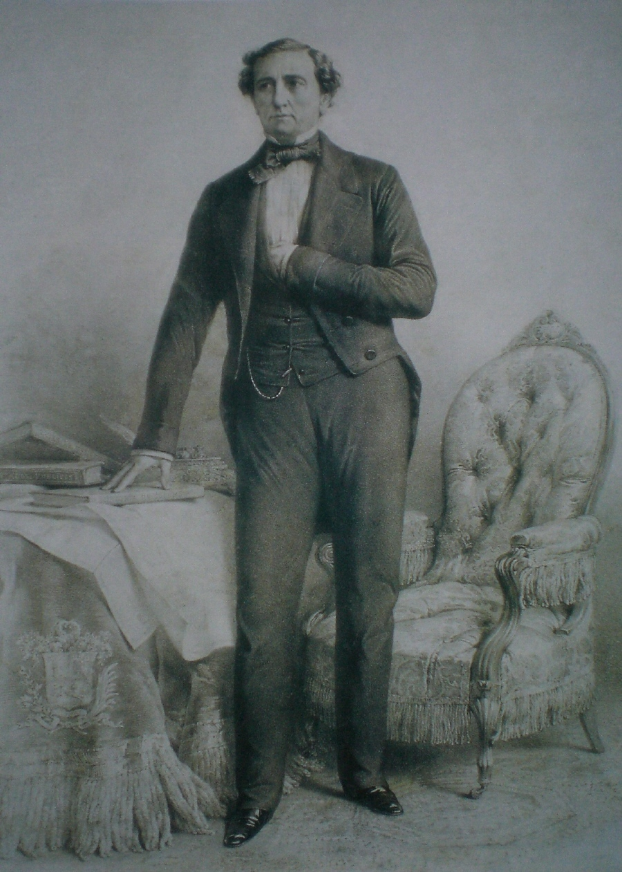 Lithography of Venezuelan president José Tadeo Monagas.